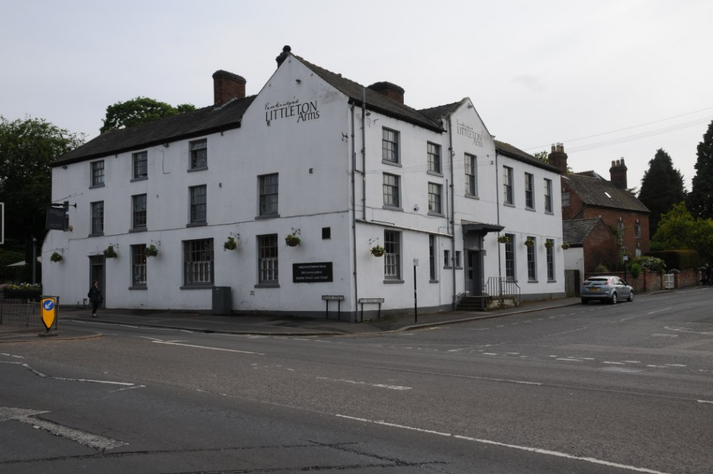 Photograph of the Littleton Arms,, Penkridge, Staffordshire, England